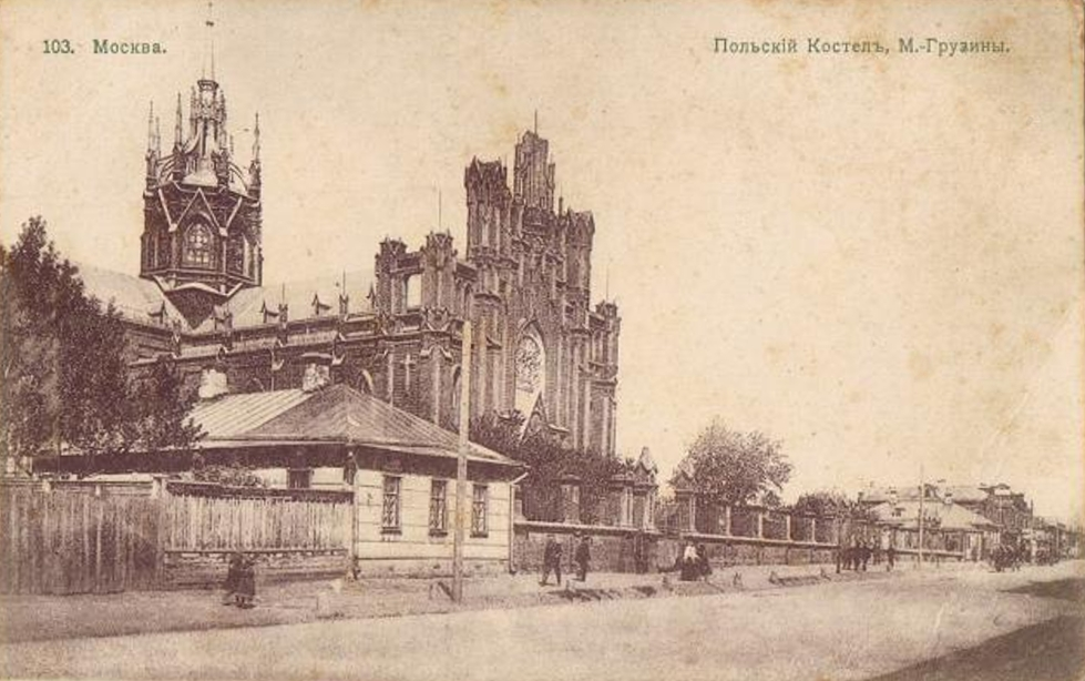 Church of the Immaculate Conception of the Holy Virgin Mary, Moscow